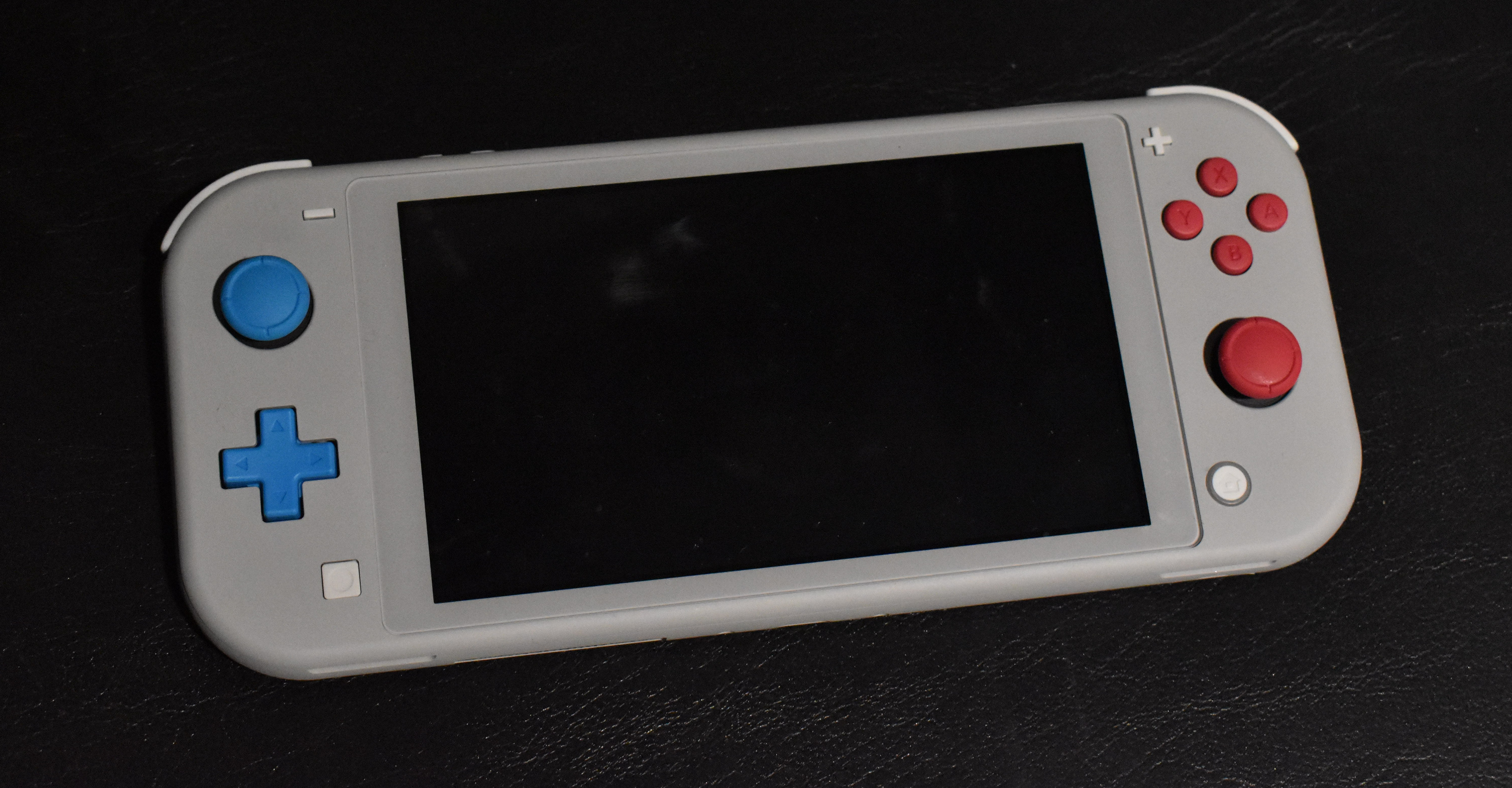 Nintendo Switch Lite Pokémon Zacian and Zamazenta edition.